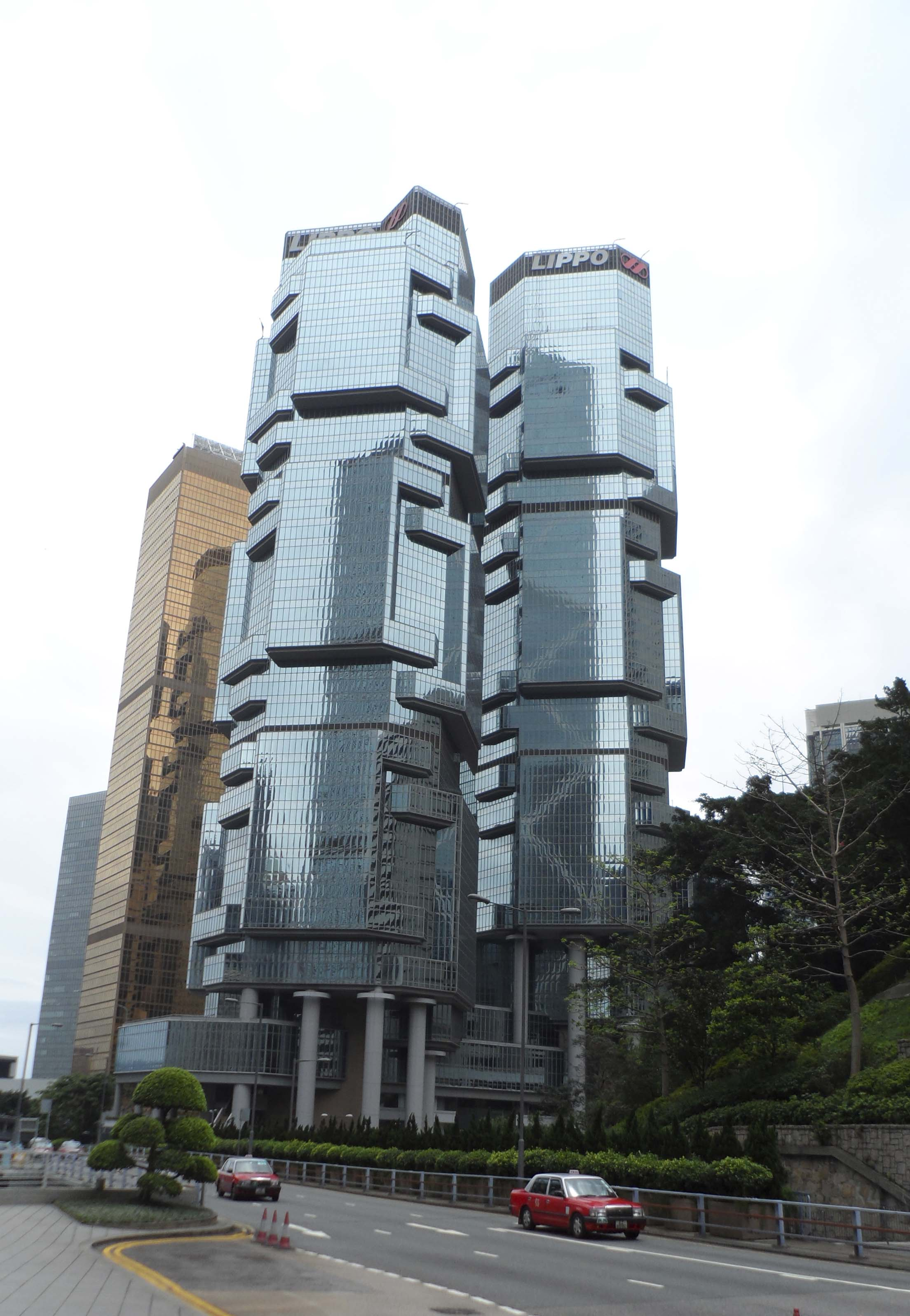 Lippo Centre, Hong Kong